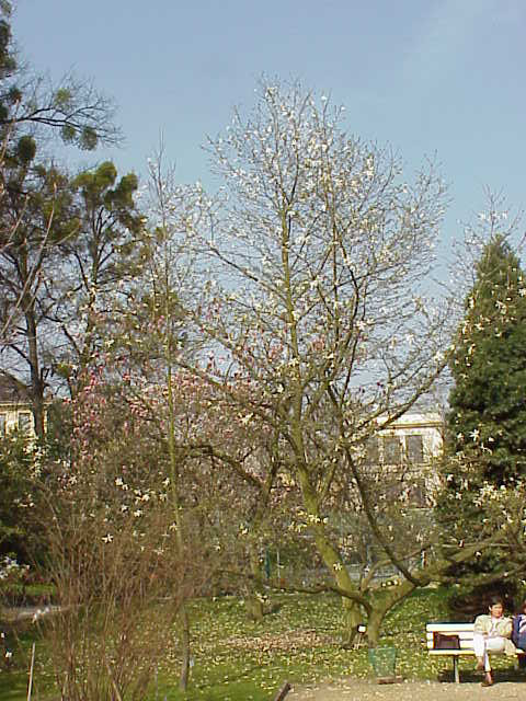 Species: Magnolia kobus borealis Family: Magnoliaceae Image No. 1